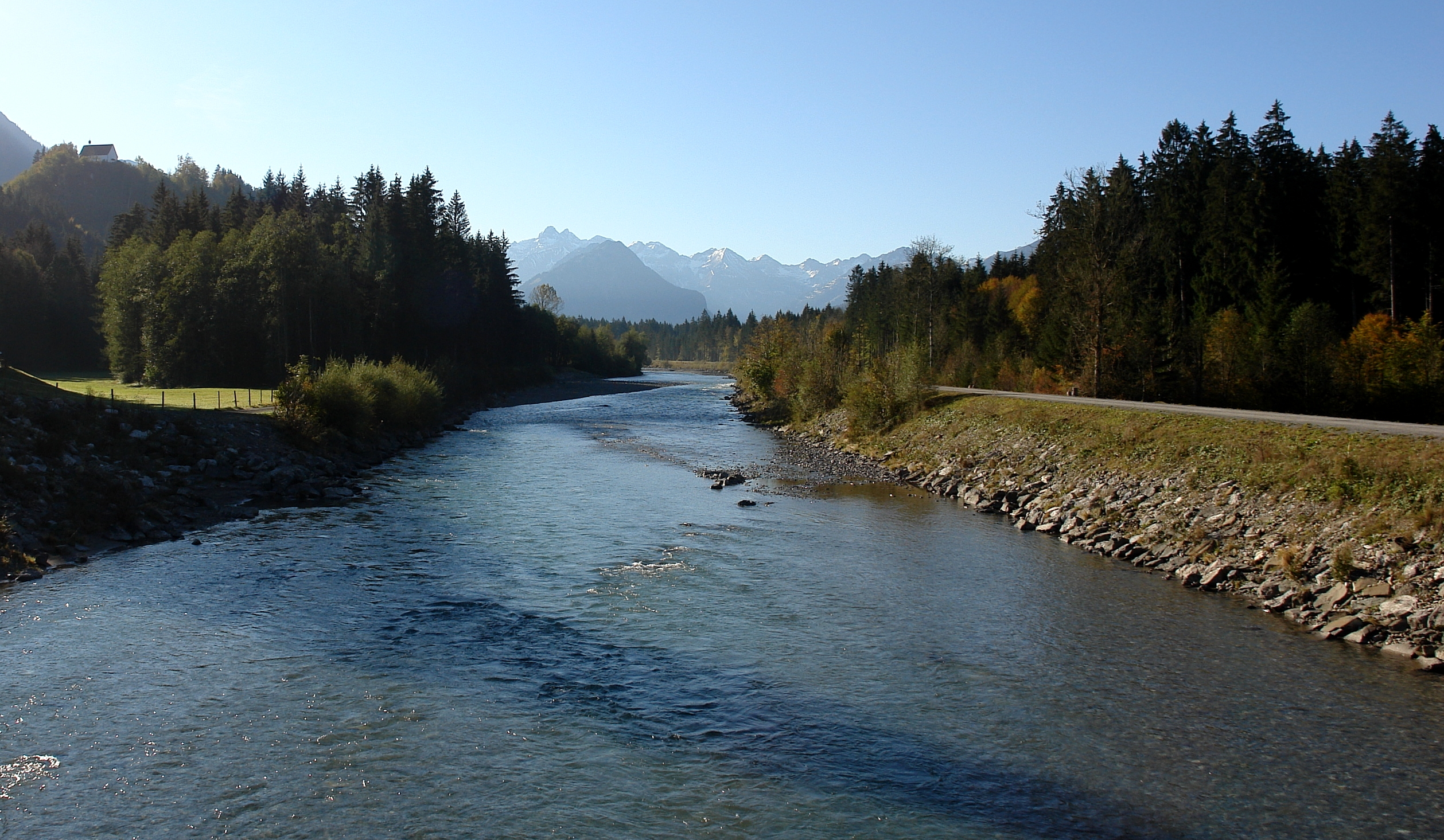 River Iller (Bavaria) aprox. 15km from source. Top left Burgkirche Schöllang.